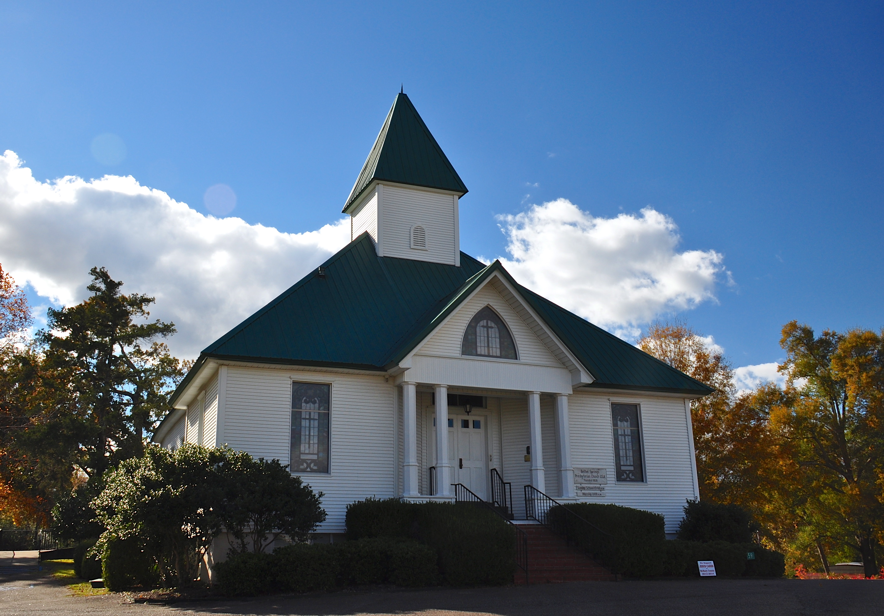 Bethel Springs Presbyterian Church is a historic church built in 1893 and listed on the National Register of Historic Places. NRHP Reference # 83003054